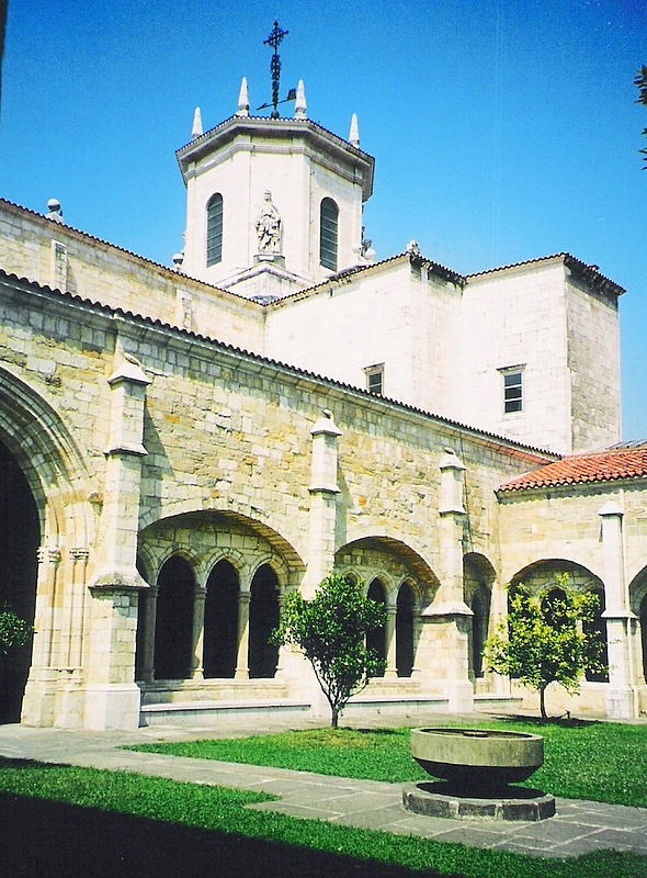 Cloister of the Cathedral of Santander (Cantabria, Spain)